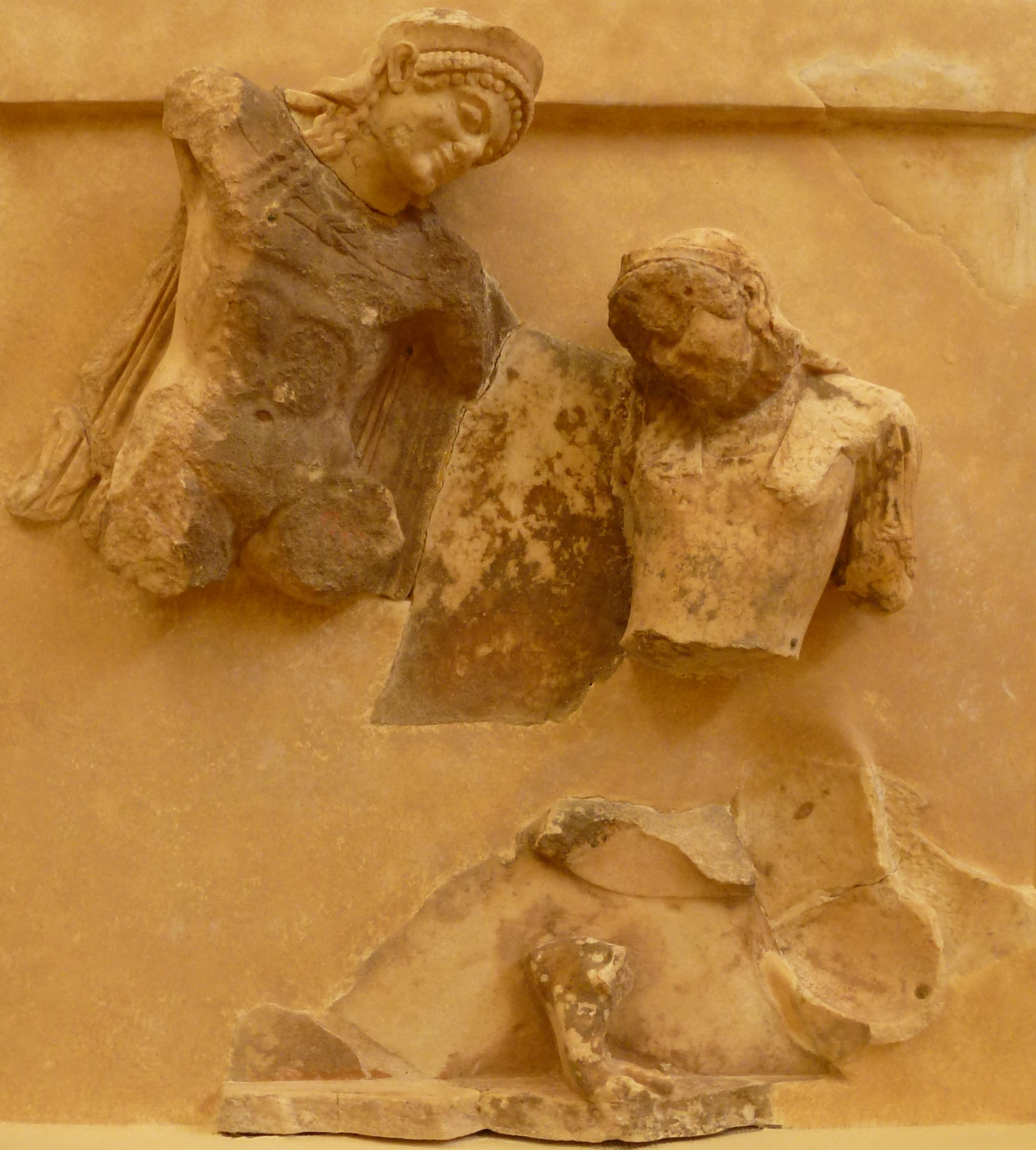 Theseus and Antiope (Metopes from the Athenian Treasury in Delphi)